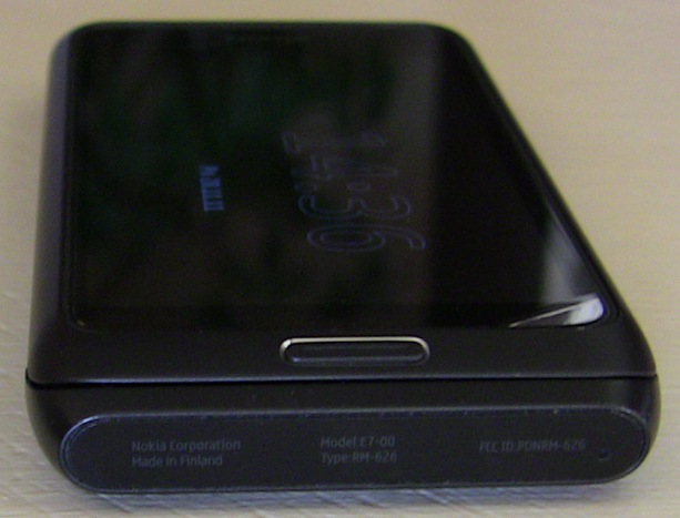 Picture of mobilephone Nokia E7